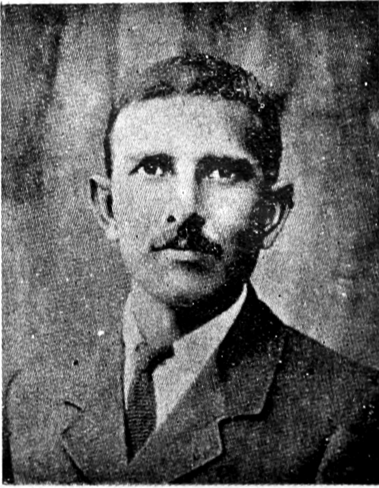 Illustration from the book Mahatma Gandhi, His Life, Writings and Speeches (1917).